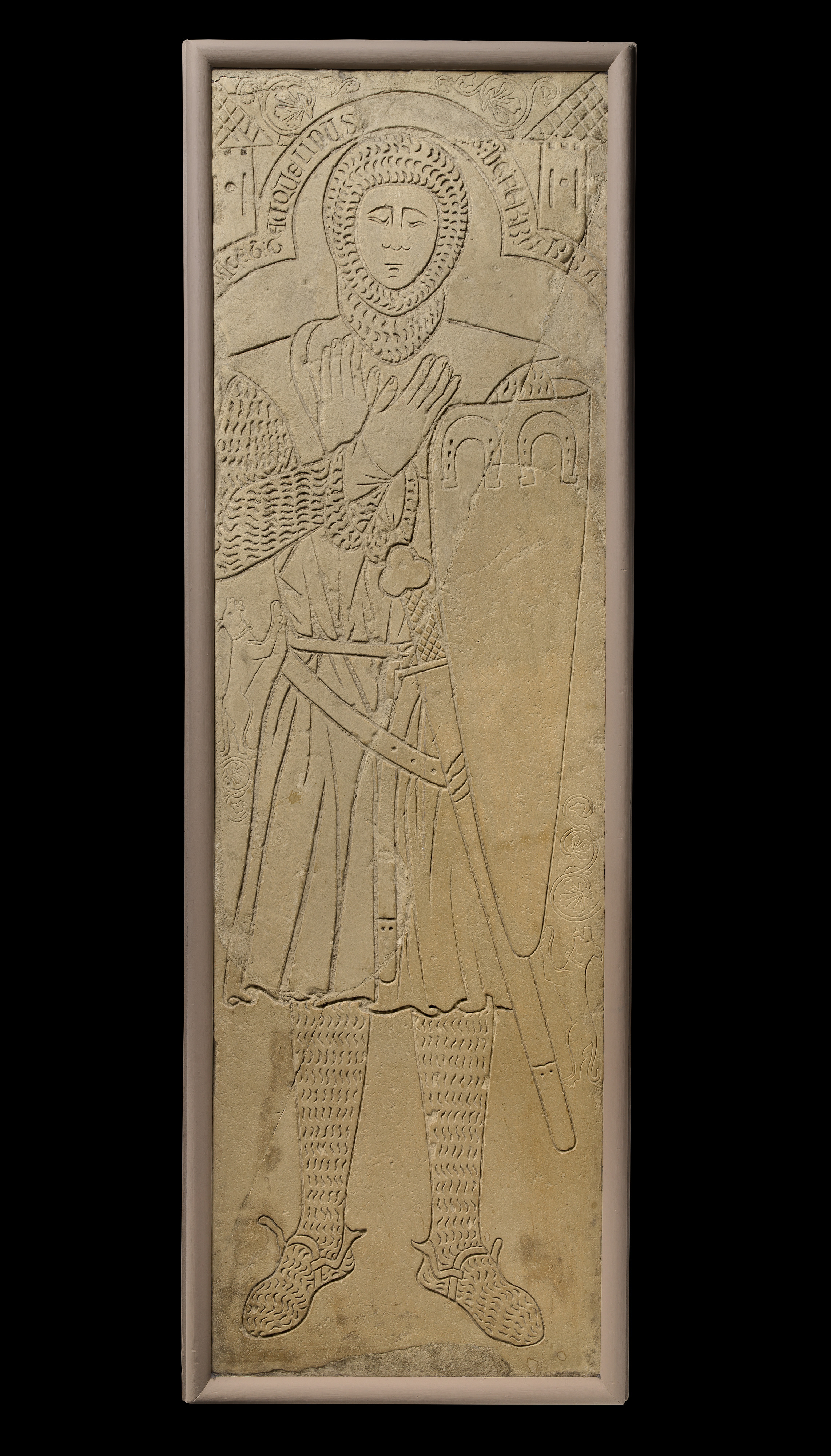 ca. 1275 - 1300 CE Wood and Limestone